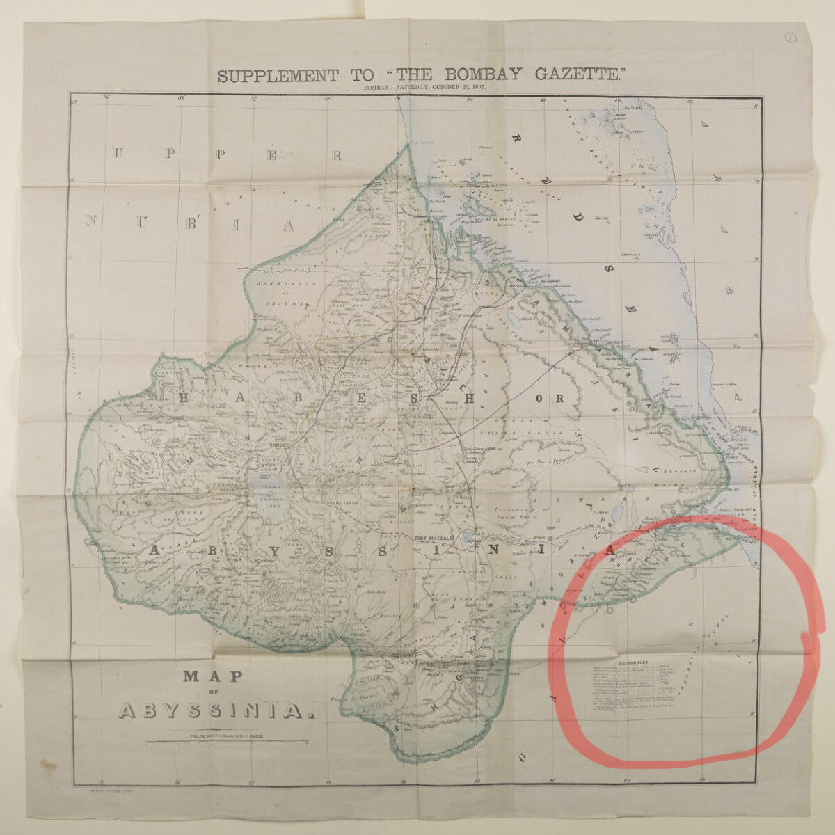 1867 Abyssinian map depicting the Gadabursi Somali clan, also known as Samaroon.